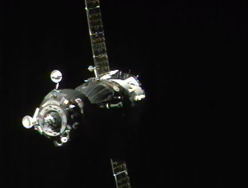 Soyuz TMA-08M approaches the International Space Station.